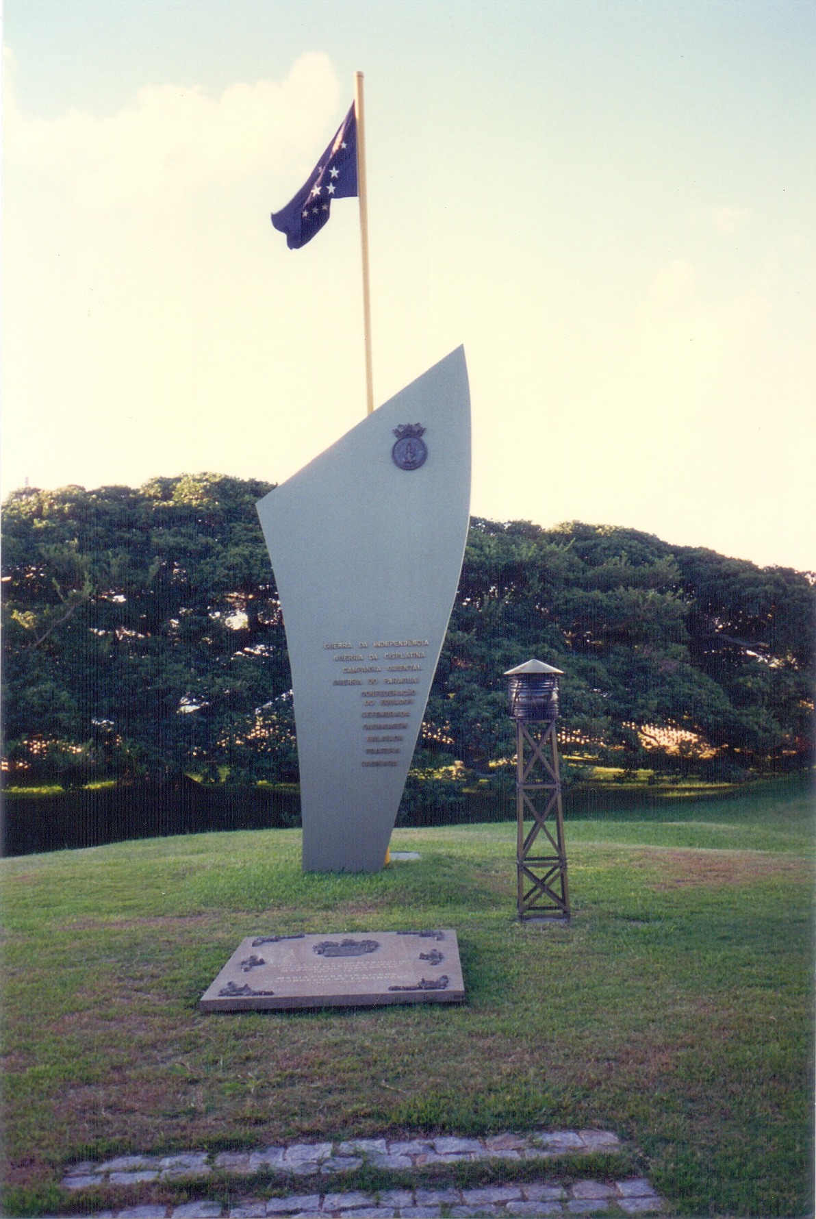 Túmulo de Tamandaré no Rio Grande do Sul